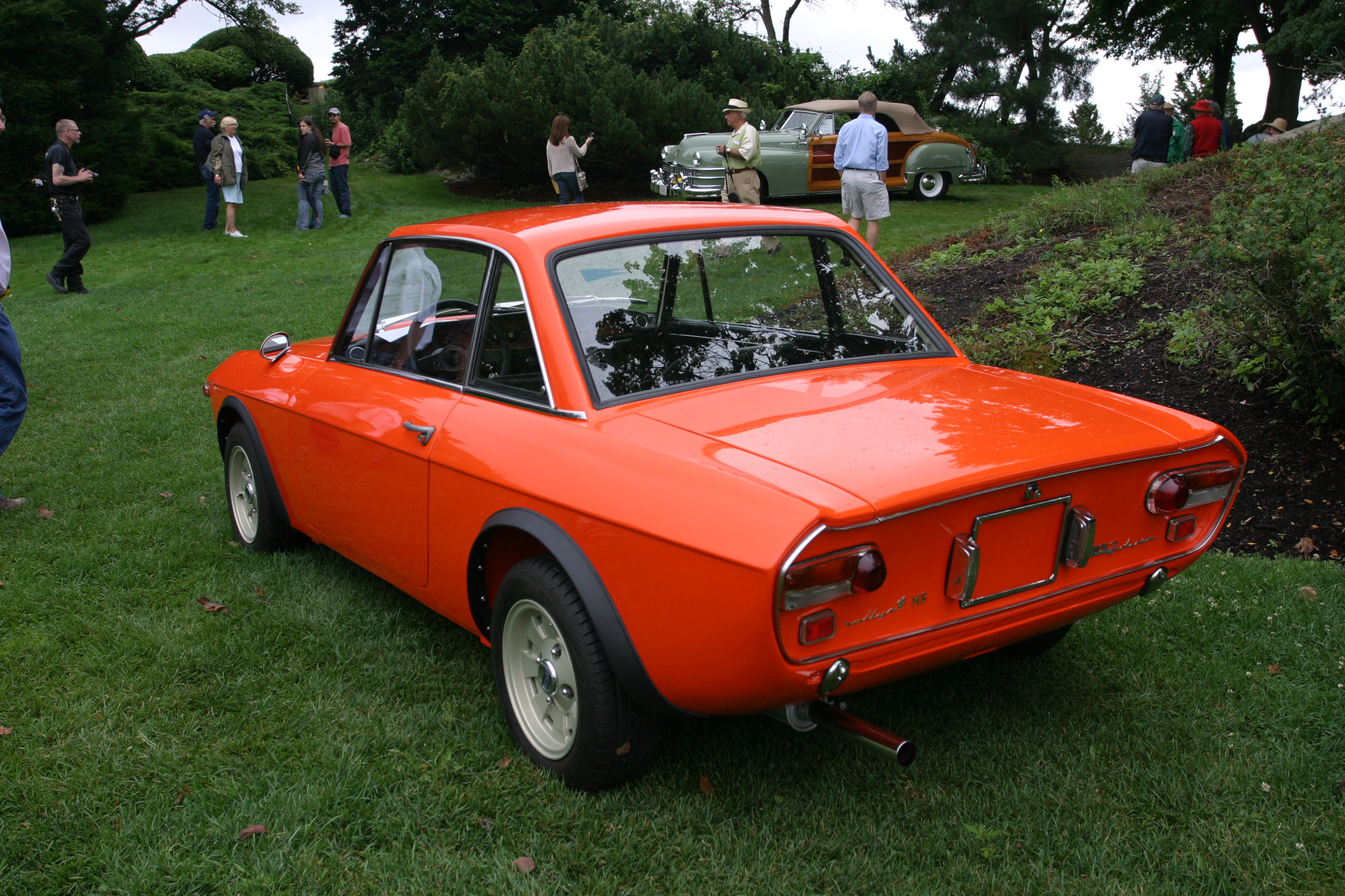 1970 Lancia Fulvia HF Fanalone, photographed during the North Shore Concours d'Elegance at the Misselwood Estate of Endicott College in Beverly, Massachusetts.